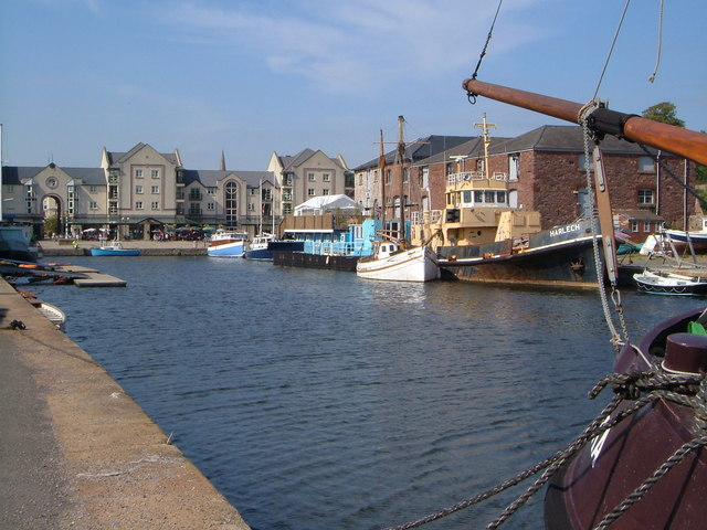 Exeter Canal Basin. A close-up of the view in 238682.